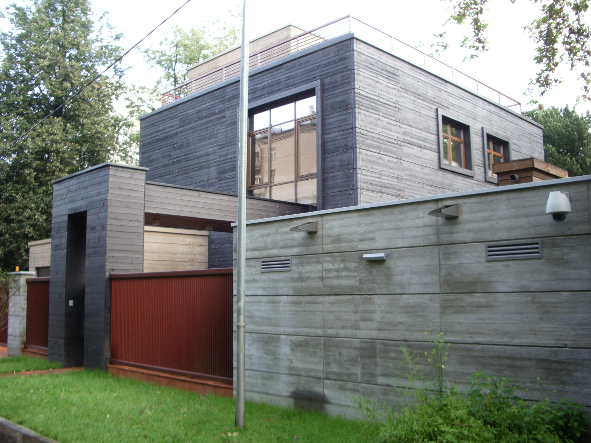 Kiprenskova street, 10. Sokol Settlement in Moscow.